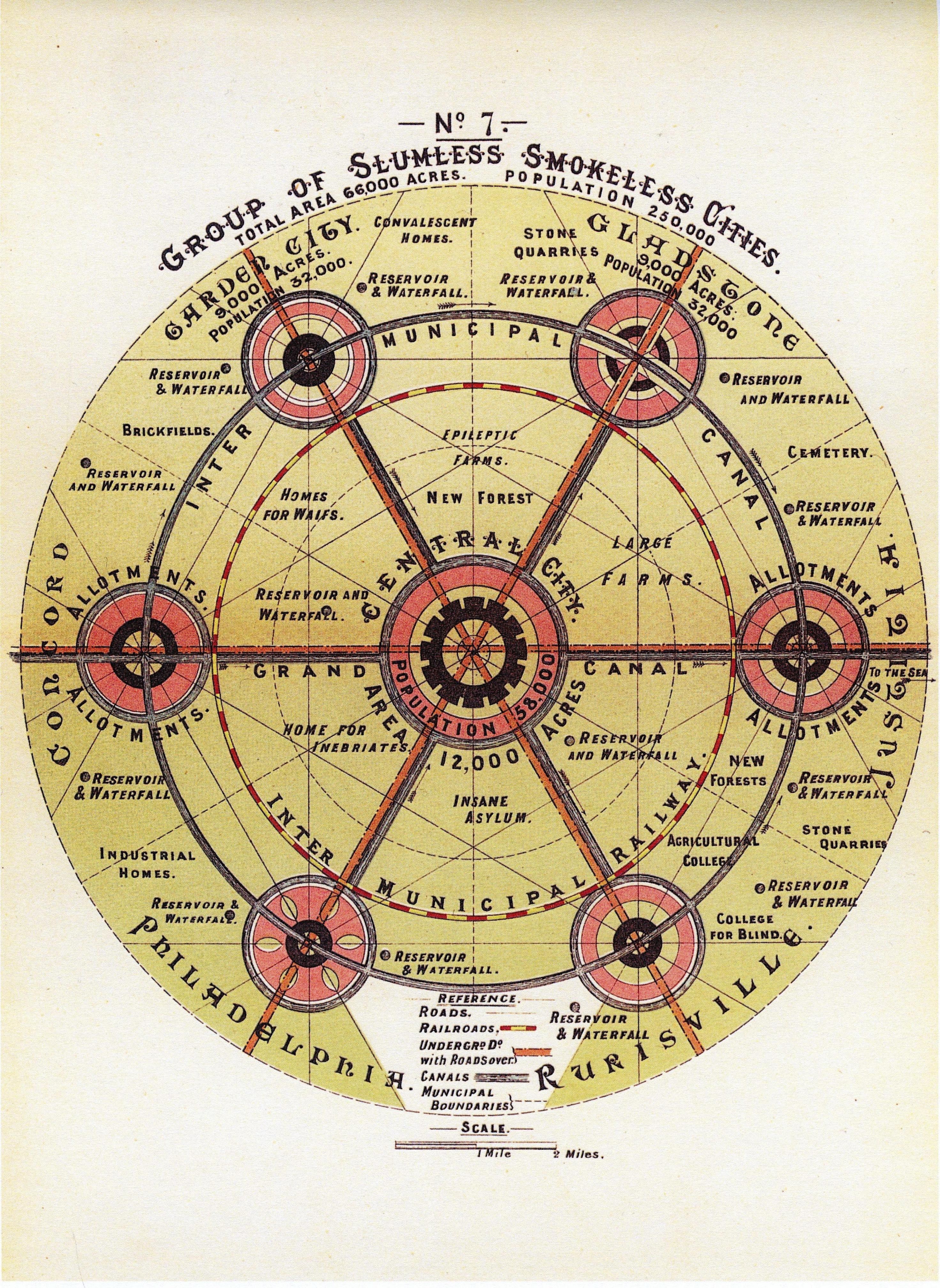 Howard, Ebenezer, To-morrow: A Peaceful Path to Real Reform, London: Swan Sonnenschein & Co., Ltd., 1898.